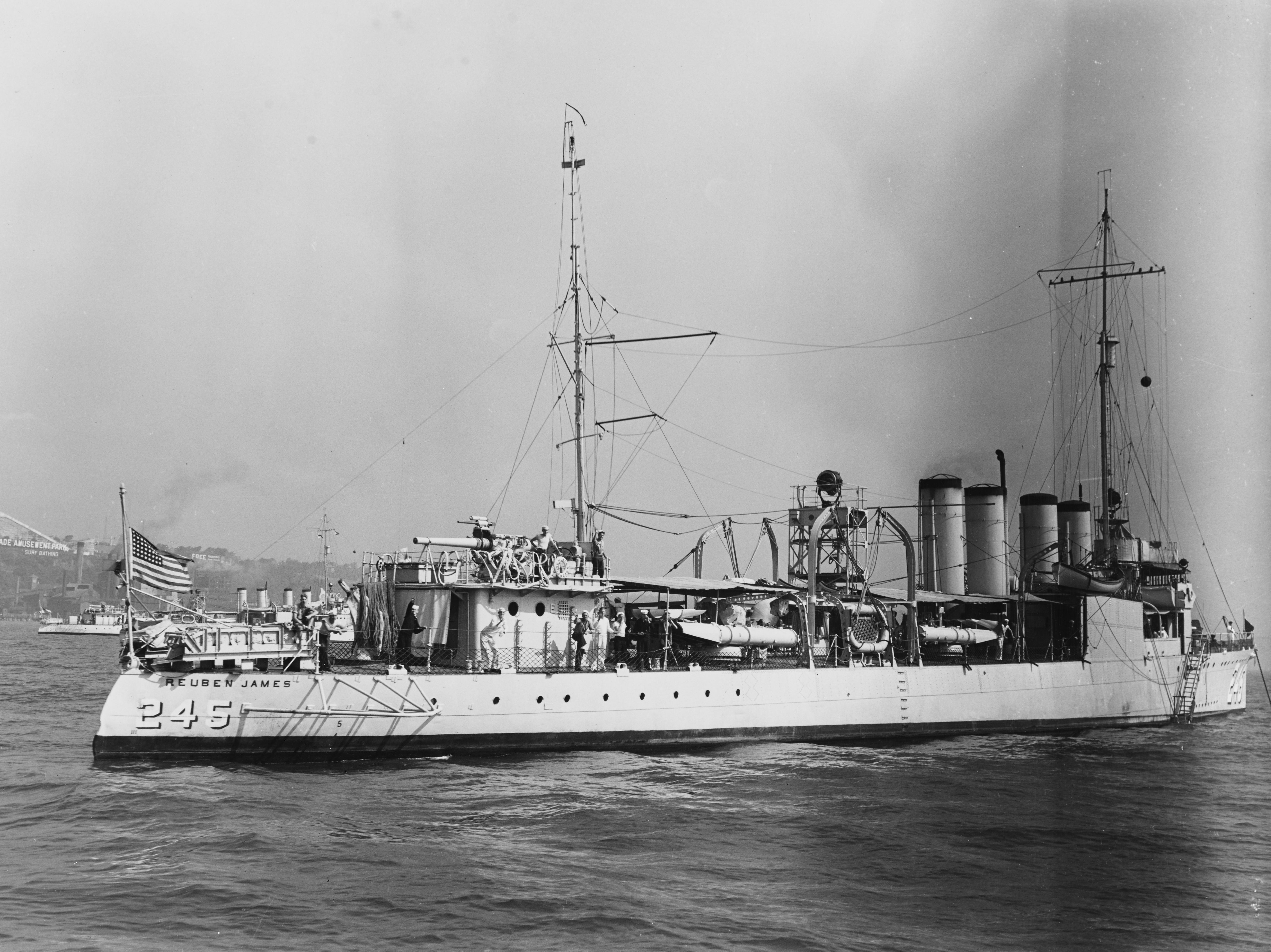 The U.S. Navy destroyer USS Reuben James (DD-245) on the Hudson River, New York (USA), on 29 April 1939. USS Hopkins (DD-249) is visible in the background.